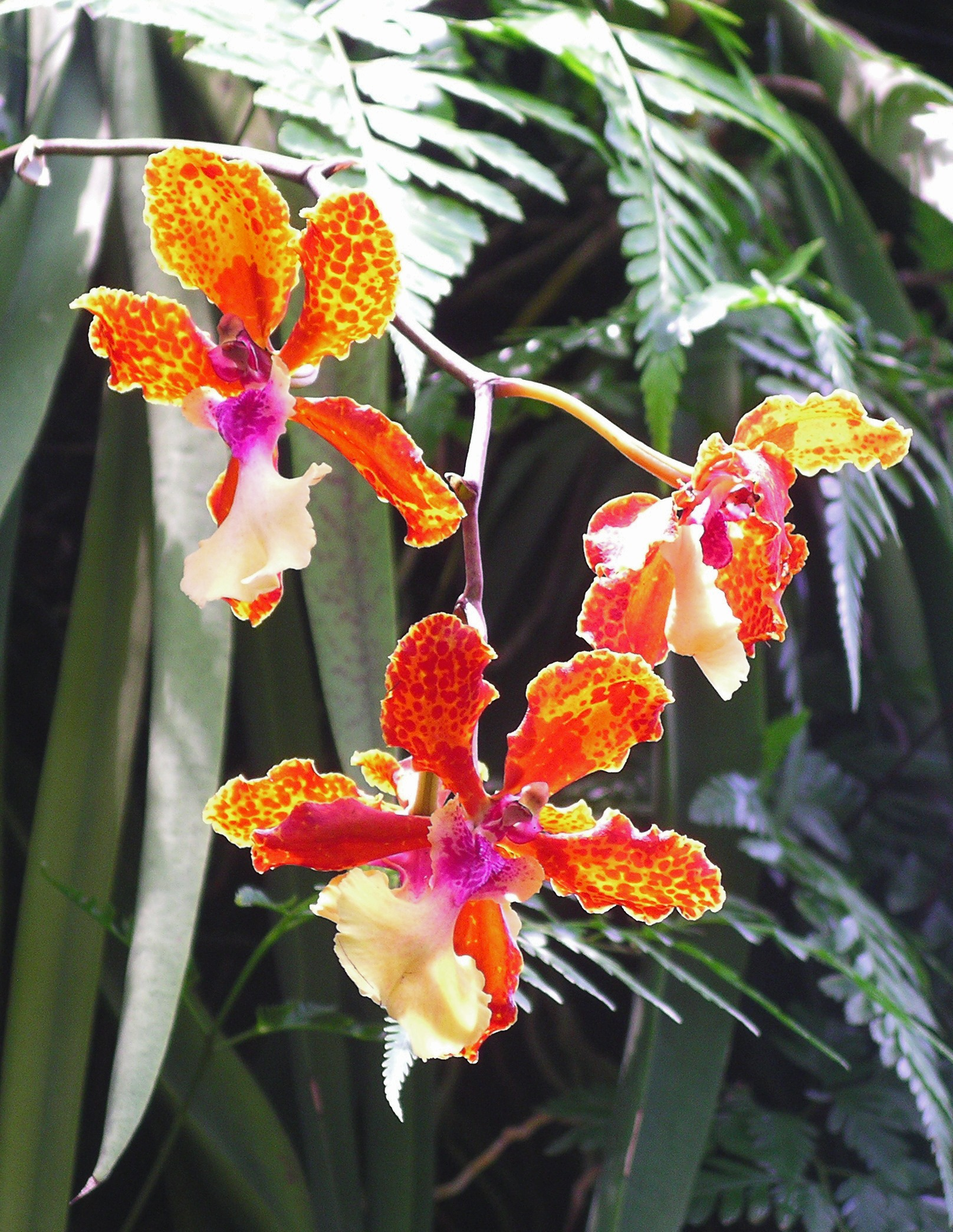 Unidentified orchids at the National Orchid Garden, Singapore Botanic Gardens. Photographed with a Pentax Optio 555 digital camera, 1/300s @ f4.6.